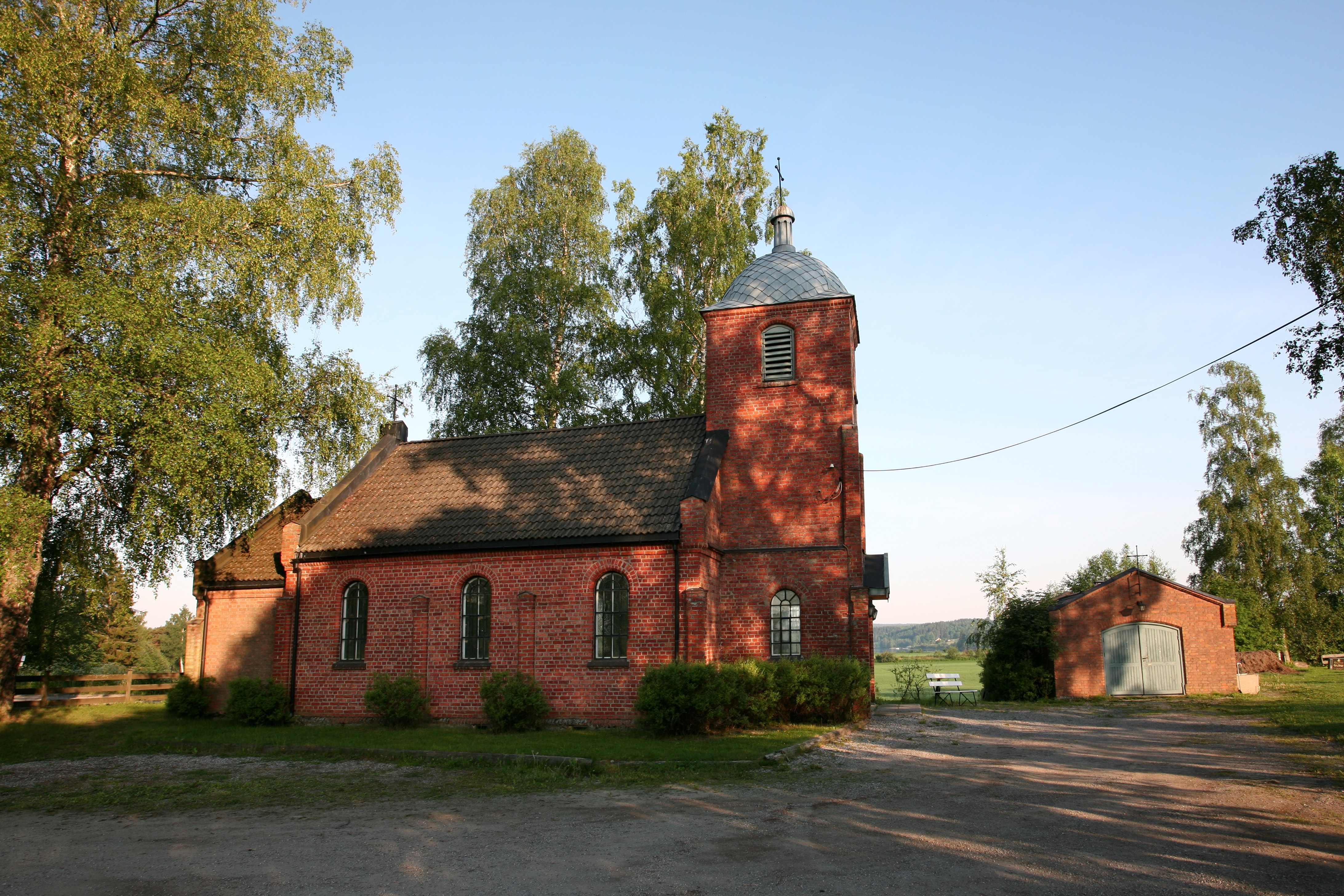 Picture of Klodsbodding kapell (Akershus - Norway)